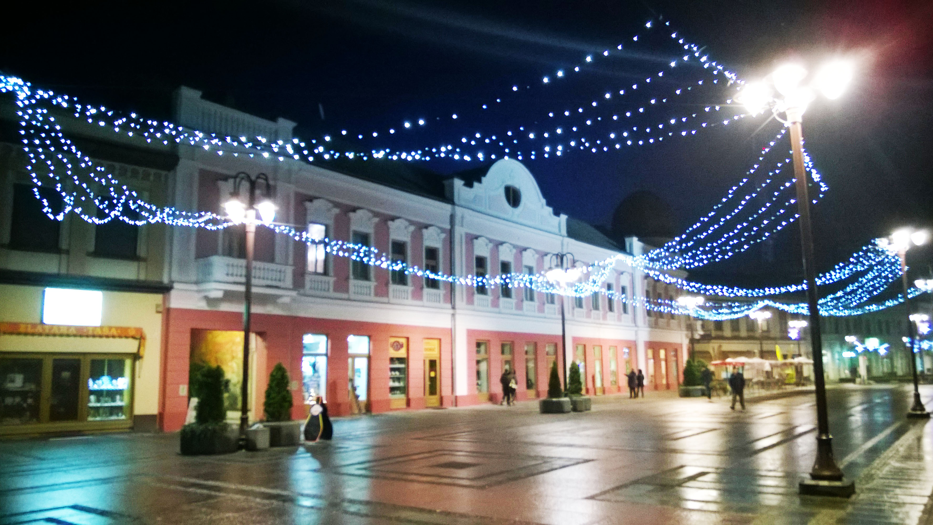 Promenade Brčko